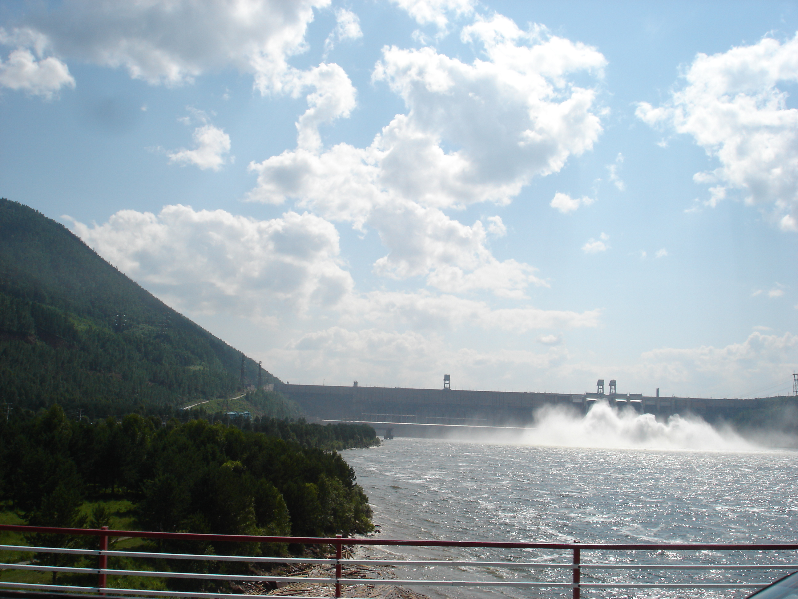 The Krasnoyarsk Dam in Russia.